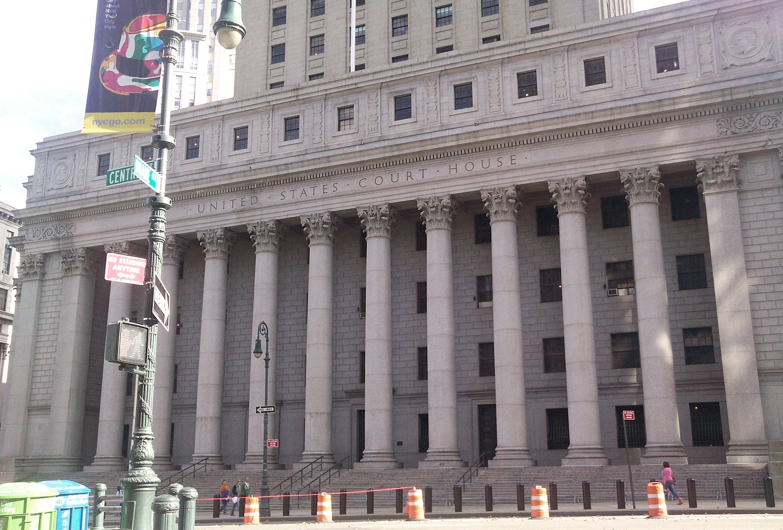 New York County Courthouse in New York City